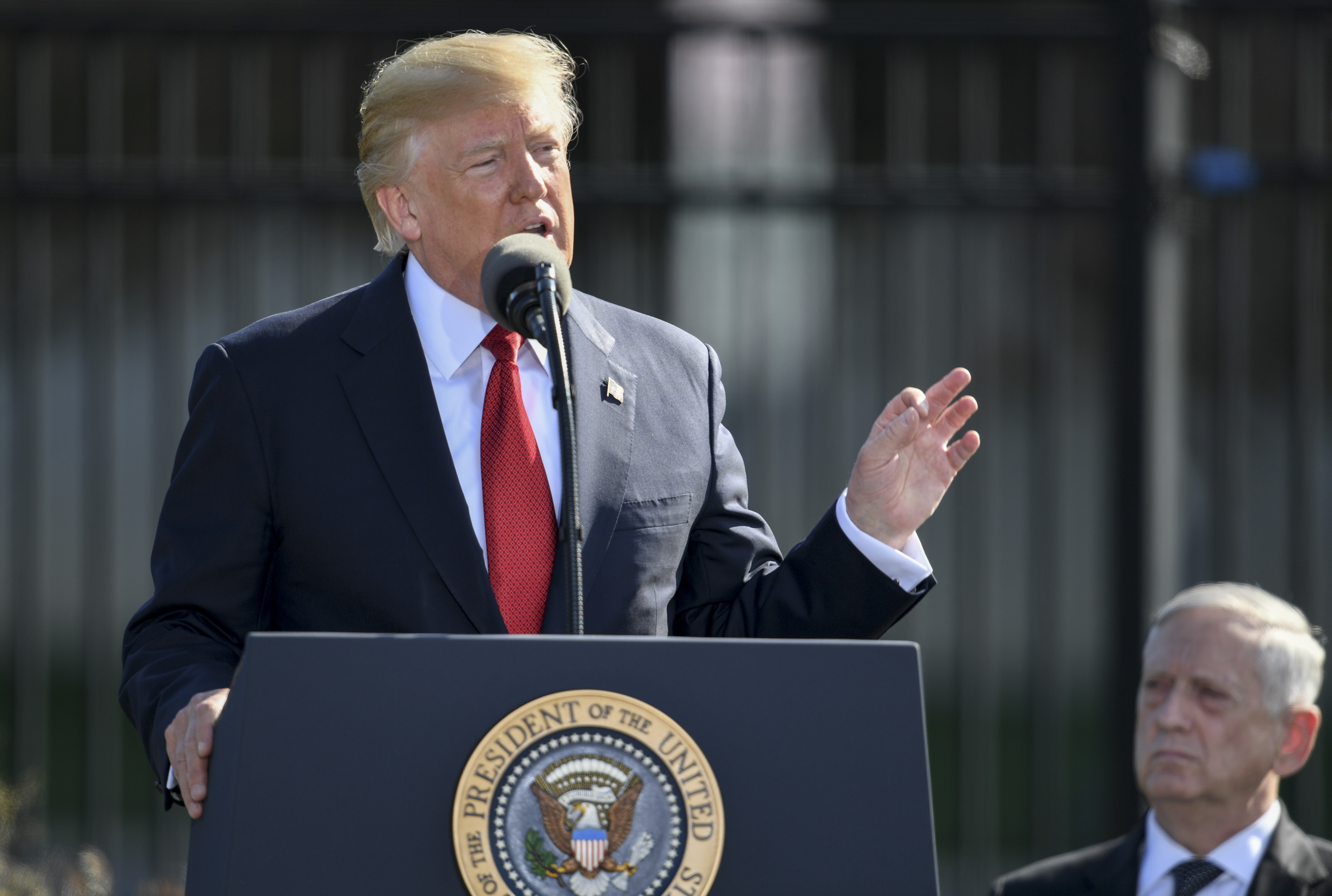 President Donald Trump speaks during the 9/11 Observance Ceremony at the Pentagon in Washington, D.C., Sept. 11, 2017. To the right is Secretary of Defense Jim Mattis. (DOD photo by U.S. Air Force Tech. Sgt. Brigitte N. Brantley